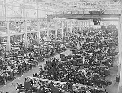 Interior of the Ford River Rouge tool & die factory — in Michigan.